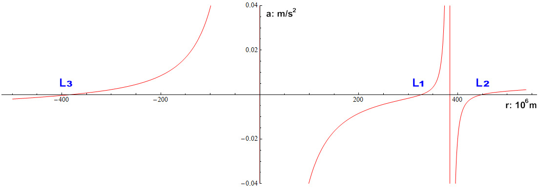 Net radial acceleration of a point orbiting along the Earth-Moon line. A positive value means the object will be forced to the right. Lagrangian points L3,L1,L2 occur where the line crosses the x-axis, but due to the positive slope on crossover, none of them are stable.